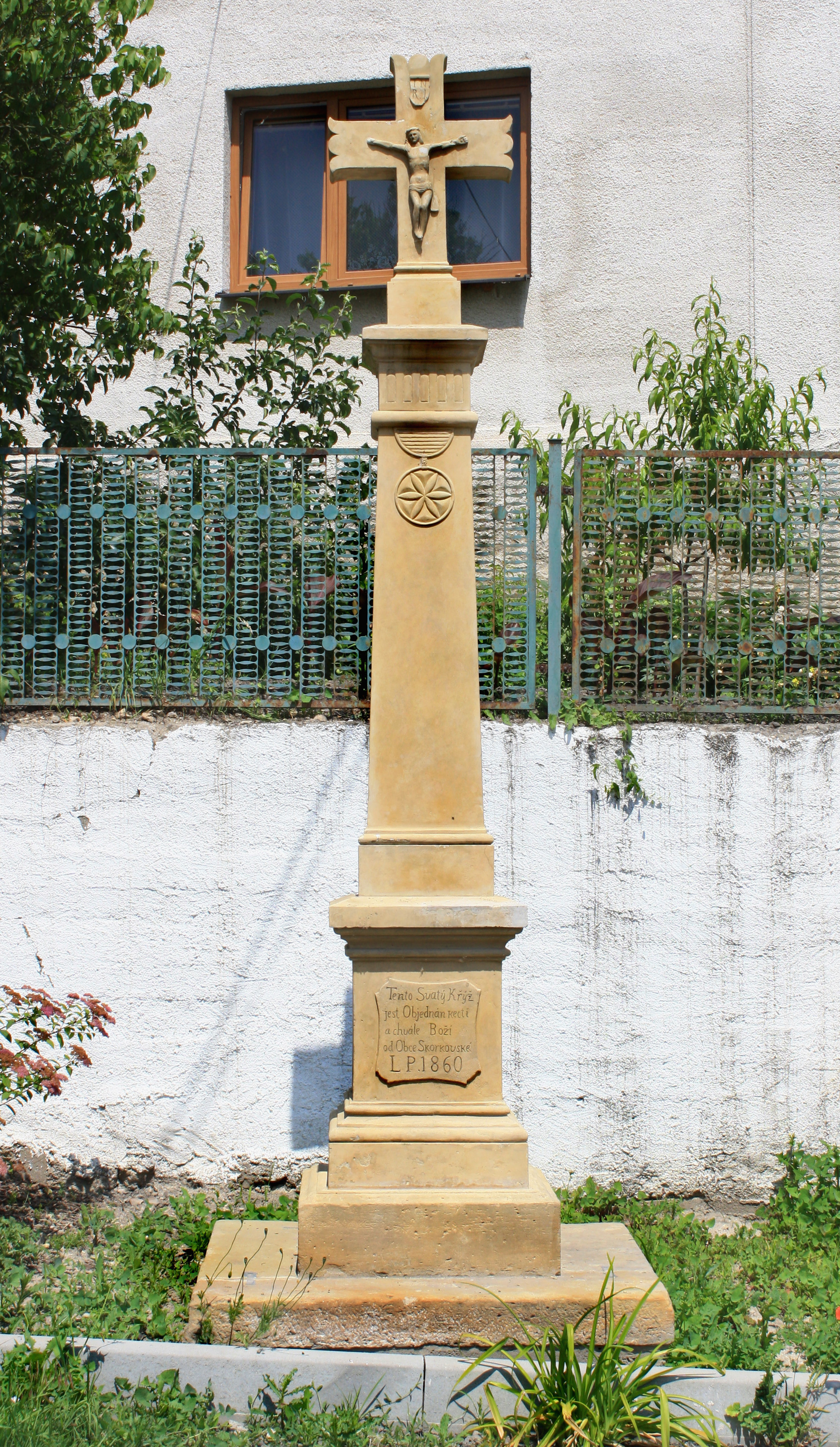 Crucifix in Skorkov, Czech Republic